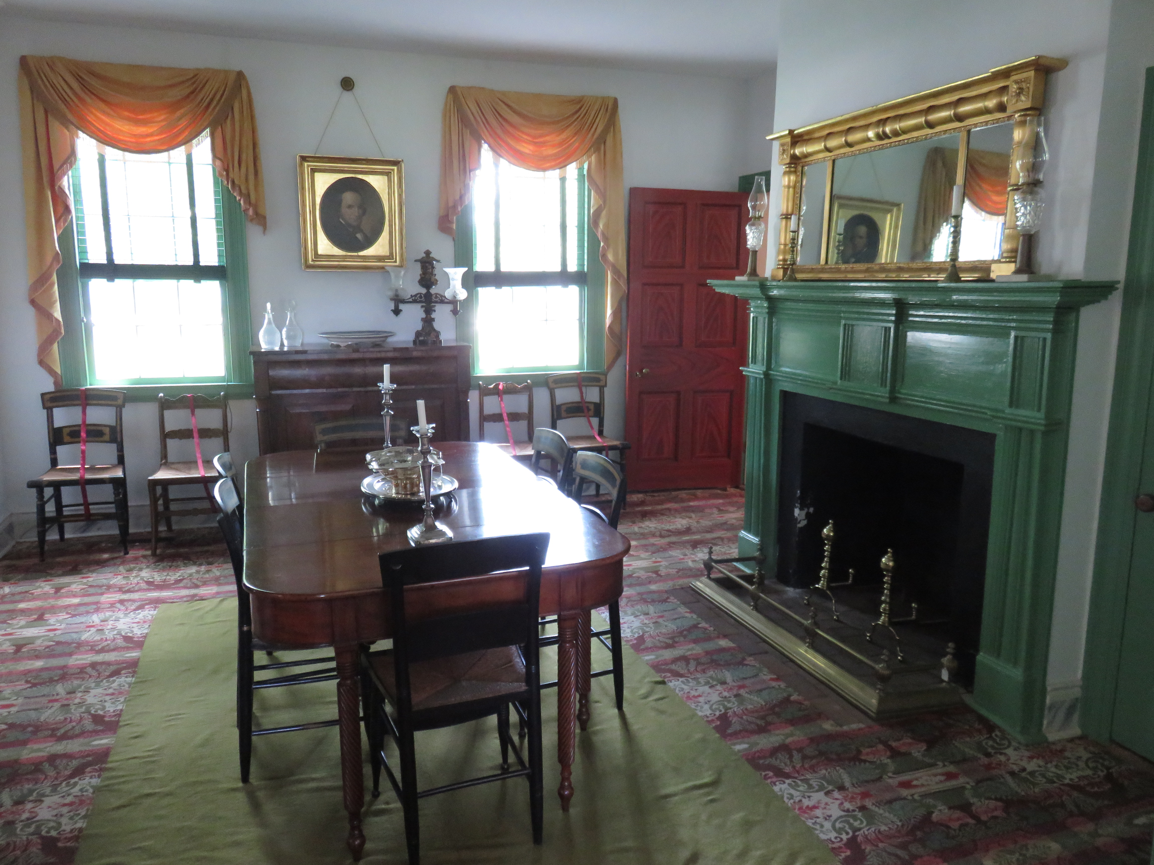 Room on ground floor of Calvin B. Taylor House in Berlin, Maryland in 2019